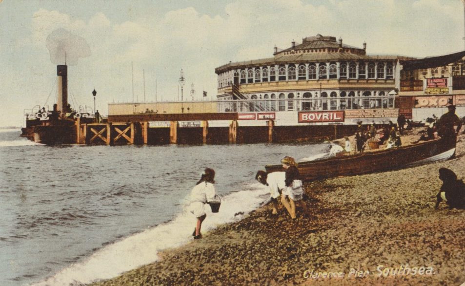 Postcard entitled "Clarence Pier, Southsea", used in the post with green halfpenny stamp of King George V and postmarked Portsmouth, September 1915; printed on reverse is "English Photography / J. Welch & Sons, Photographic Publishers, Portsmouth".